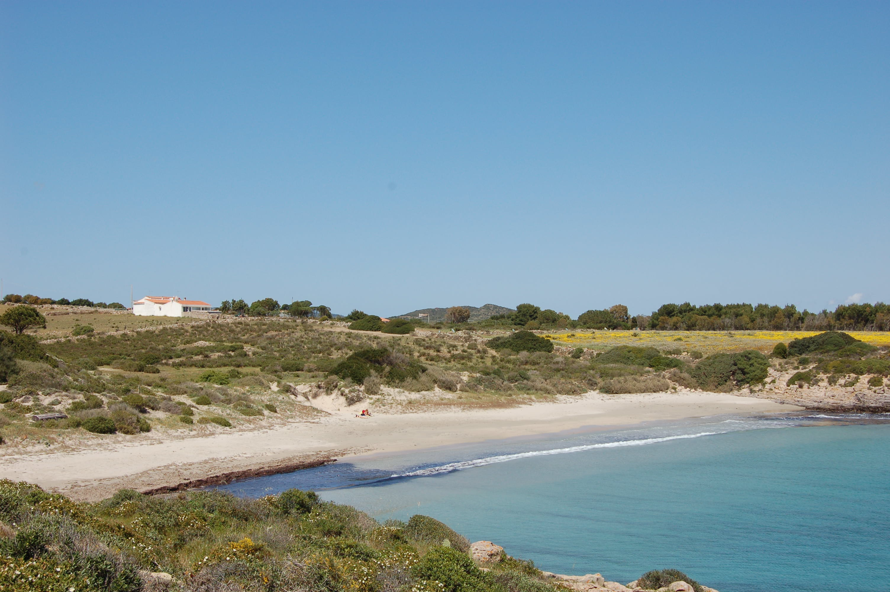 Small beach in South side of San Pietro isle, South Sardinia - Italy